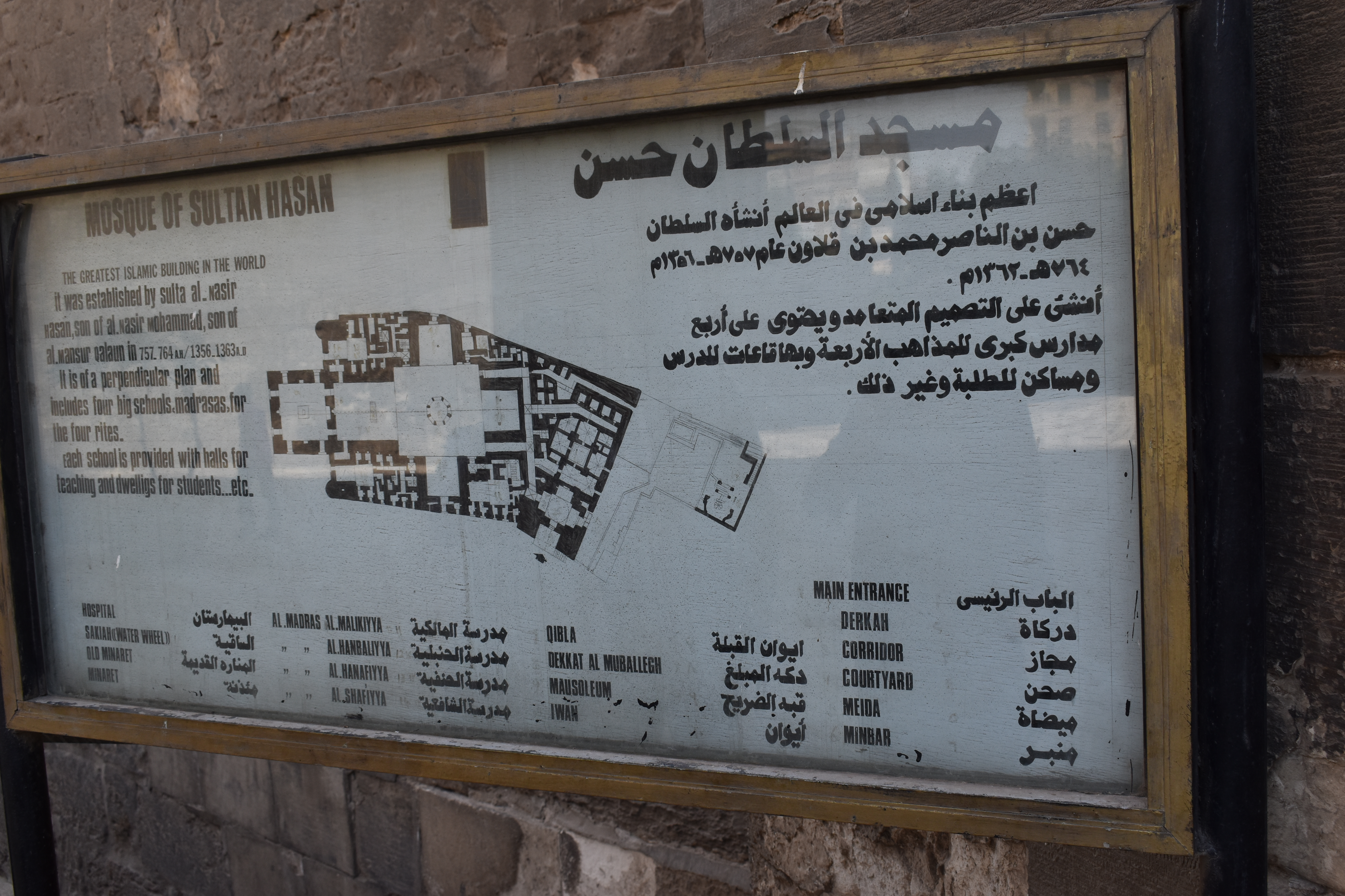 Madrasah of Sultan Hassan in 2017, photo by Hatem Moushir